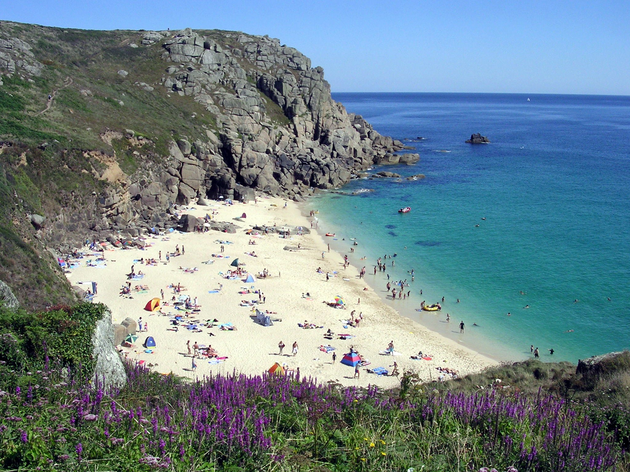 Looking down onto Porthchapel Beach from the coastal path on the cliffs. Near Porthcurno, Cornwall, U.K. The Pedn-men-an-mere headland is on the far side of the beach.